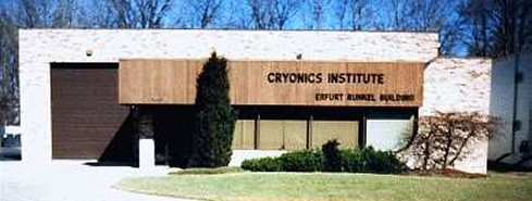 Photo taken of the Cryonics Institute building